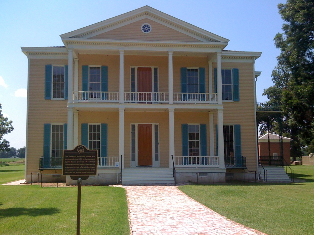 A brief excursion to a fully-restored southern plantation house in Lake Village, AR.